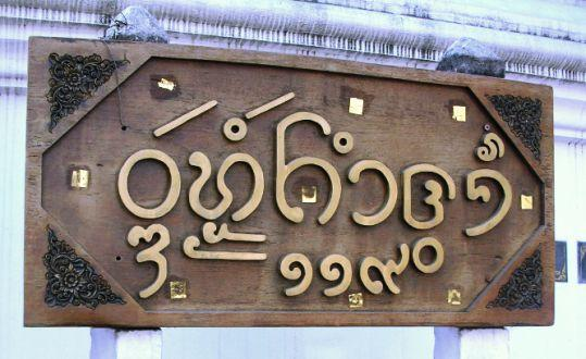 Lanna script. Own work. - taken in Chiang Mai, Thailand; own camera